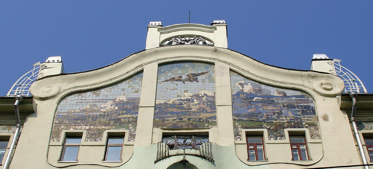 Sokol Building, Kuznetsky Most Street, Moscow. Architect: Ivan Mashkov (1867-1945). Mosaic: Nikolai Sapunov